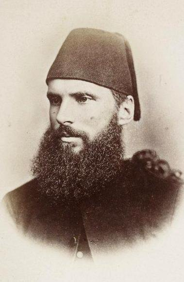 Werner Munzinger's portrait